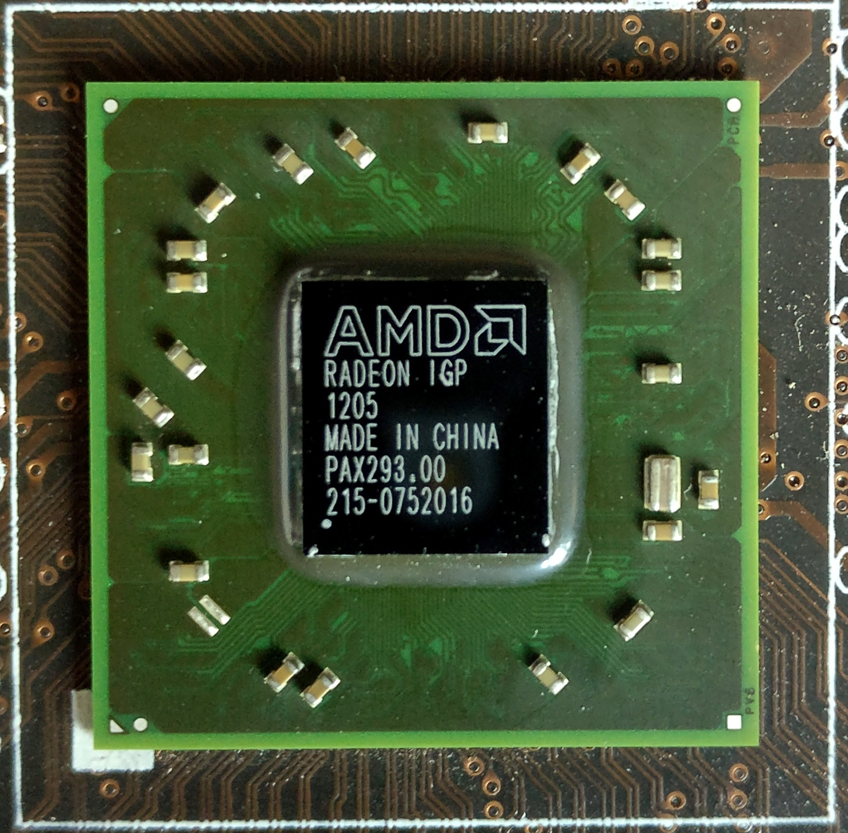 AMD Chipset - 880G (Code Name RS880) north bridge chip on an ASUS Mainboard (Model: M5A88-M).